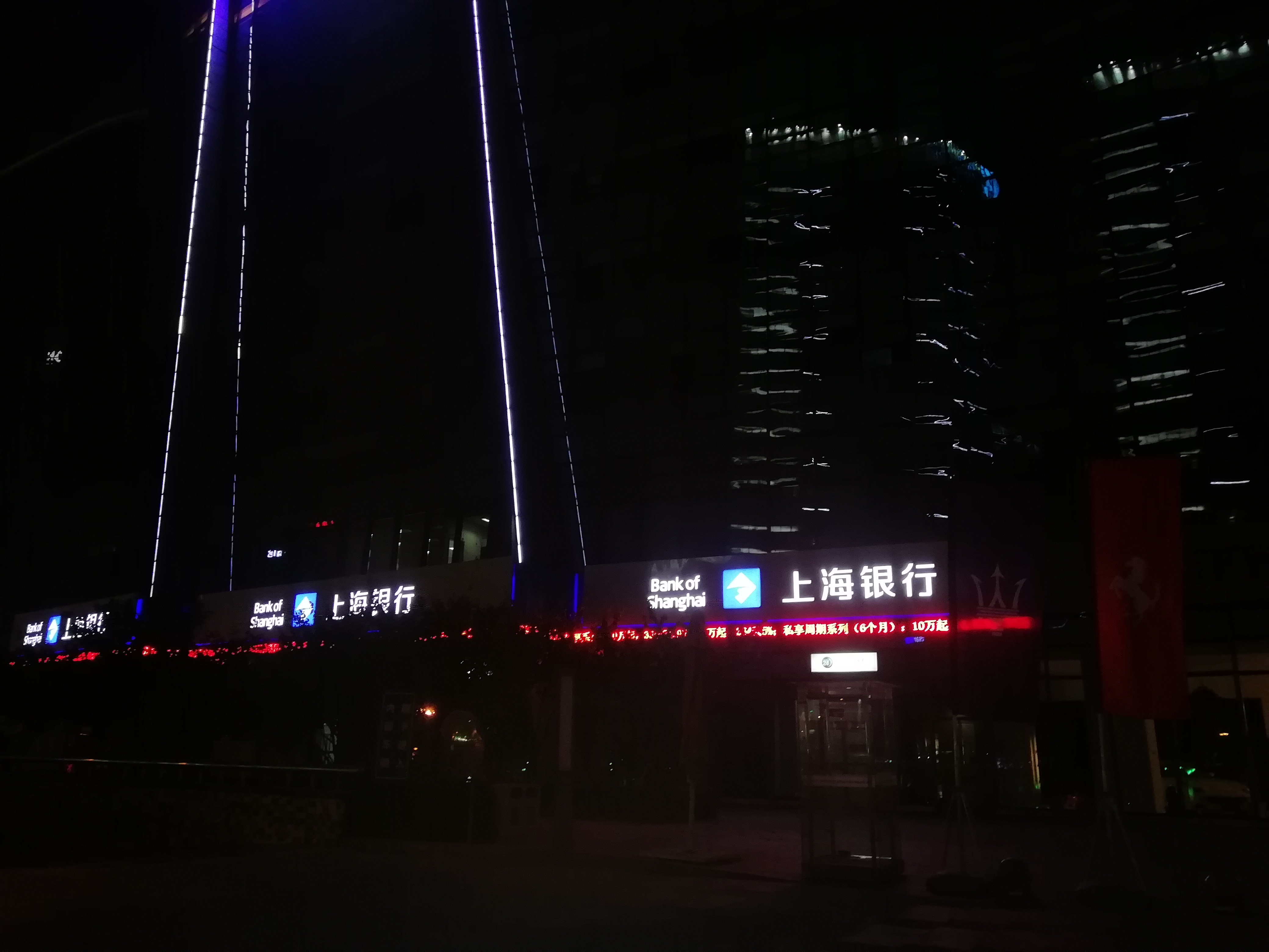 Bank of Shanghai Suzhou Branch 中文（中国大陆）: 上海银行苏州分行